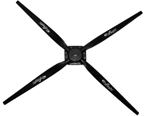 Propeller for light aircraft and ultralights. 4 blades in carbon. Ground adjustable pitch. Hélices E-PROPS Excalibur